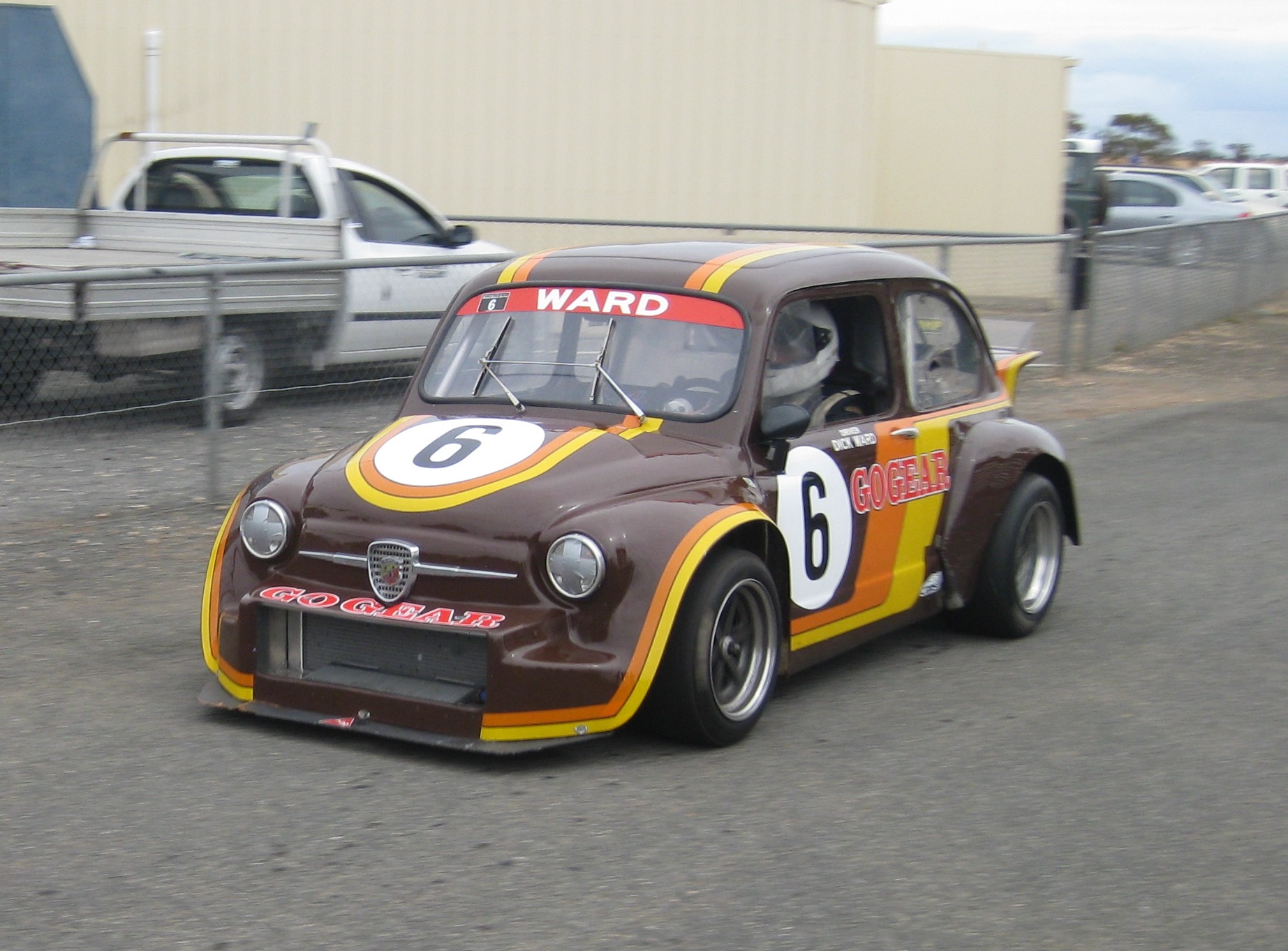 The 1967 Fiat Abarth 1000 TCR of Dick Ward at Mallala Motor Sport Park on 30 March 2013. The car was competing in the Group U category for historic Sports Sedans, which must have a competition history established prior to 31 December 1985.